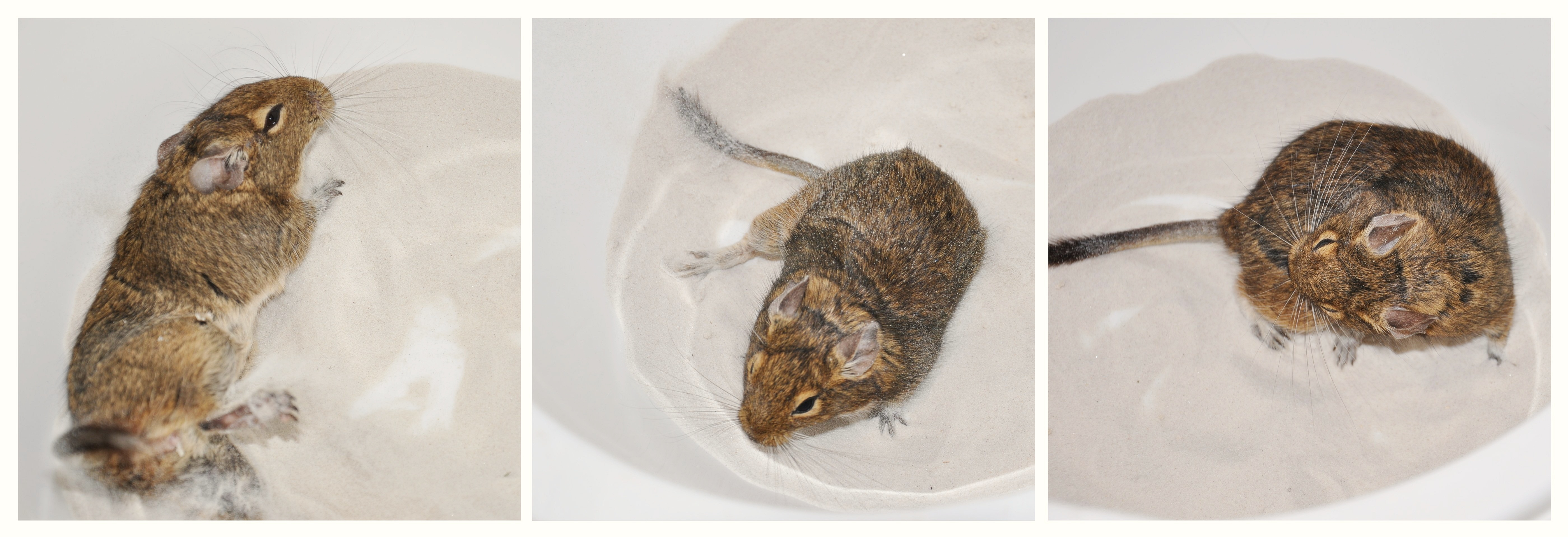 Dust bathing (Octodon degus)